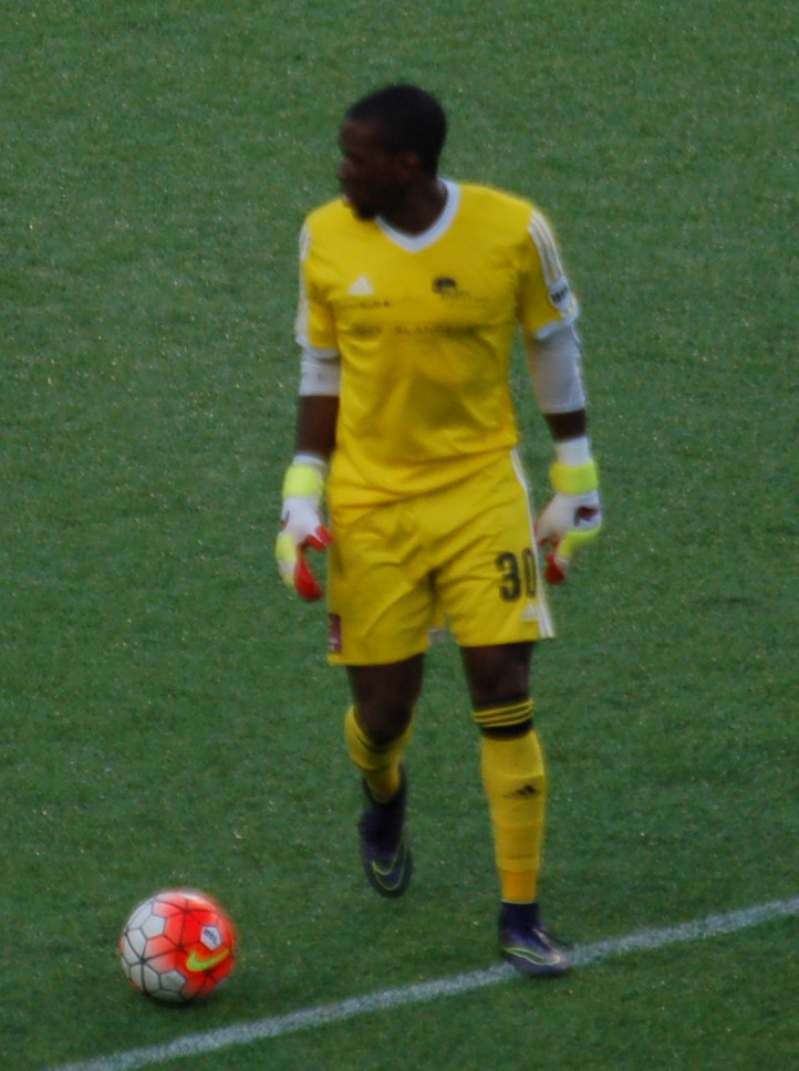 DSC_0664 Taken during a match between FC Cincinnati and Harrisburg City Islanders at Nippert Stadium in Cincinnati on May 28, 2016.